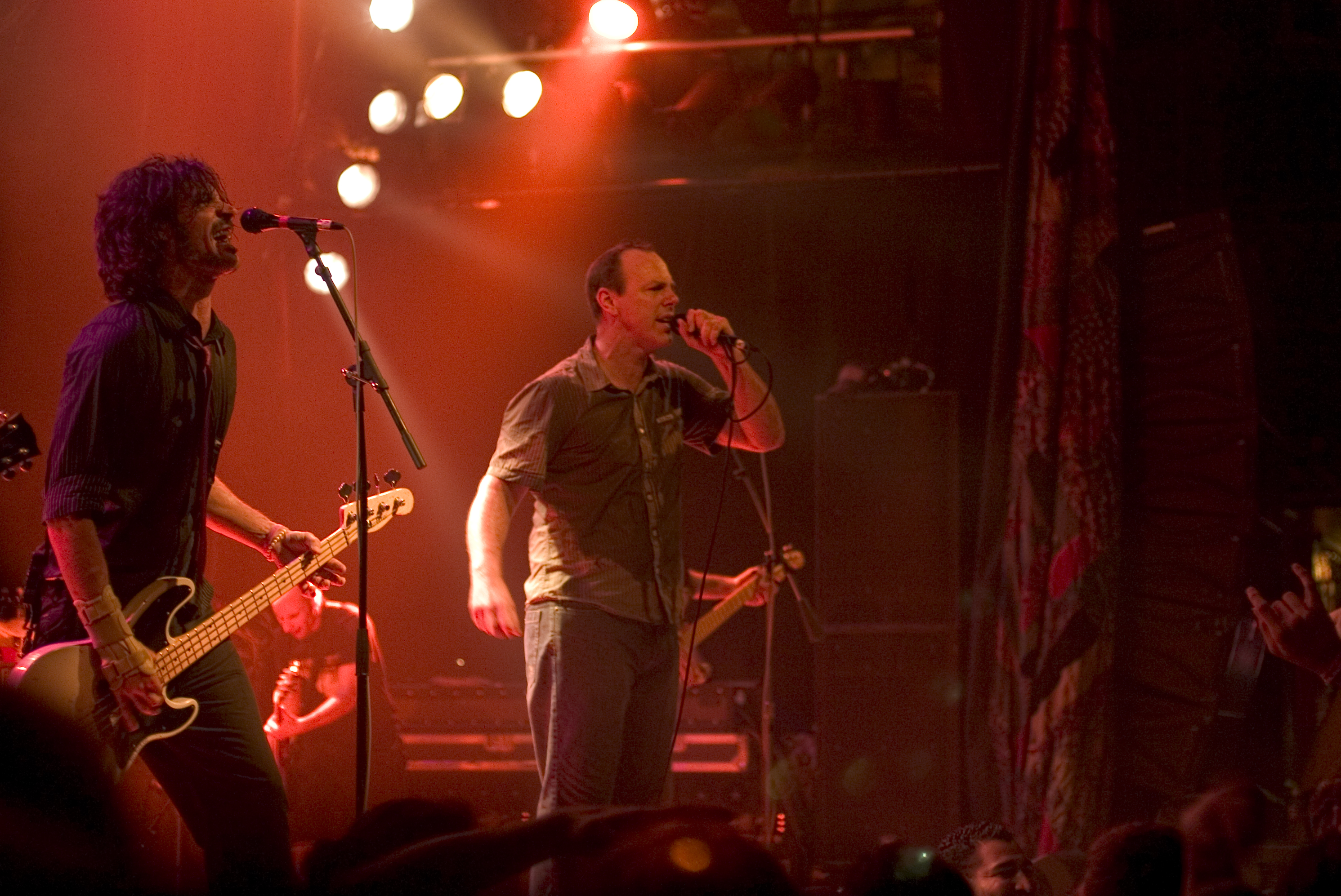 Bad Religion in concert, House of Blues, Hollywood, California.